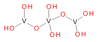 trivanadoxane-1,1,3,3,5,5-hexol